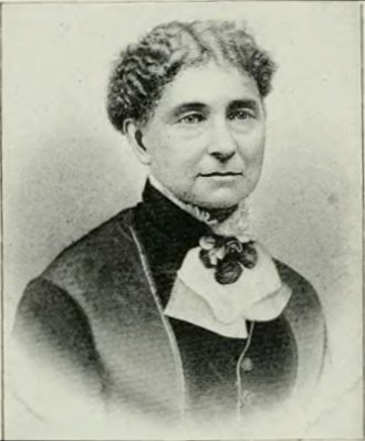 Portrait in History of Iowa From the Earliest Times to the Beginning of the Twentieth Century